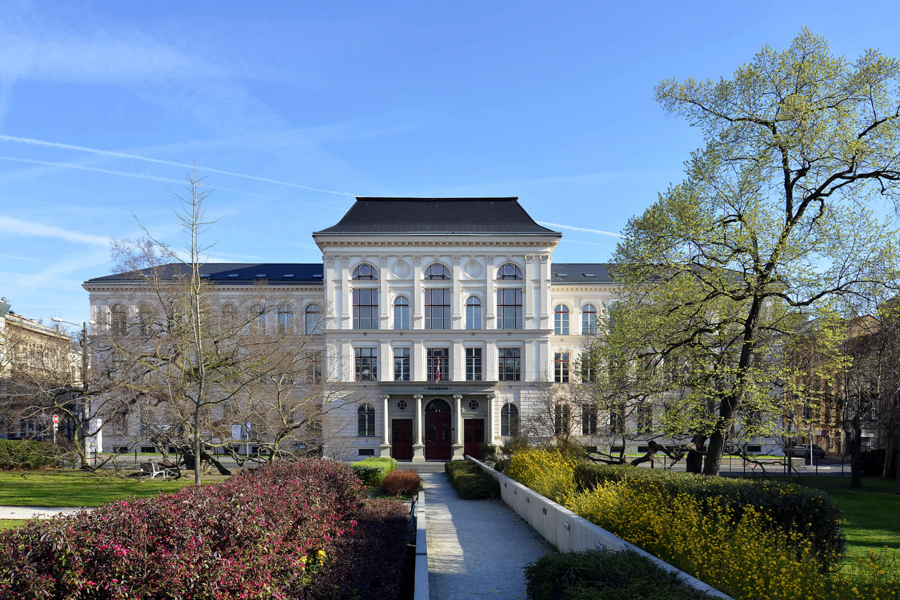 Building of the Museum of Ústí nad Labem